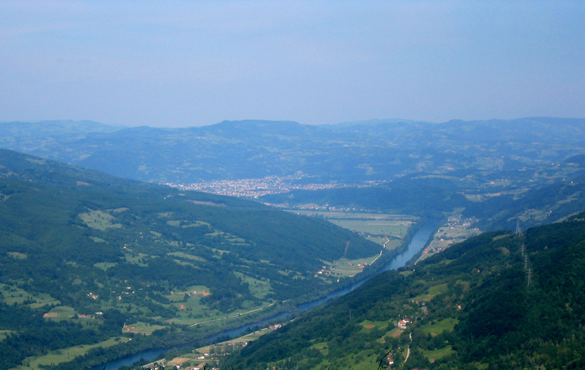 The Drina valley looking towards Bajina Bašta. Photo taken by on June 3, 2005.